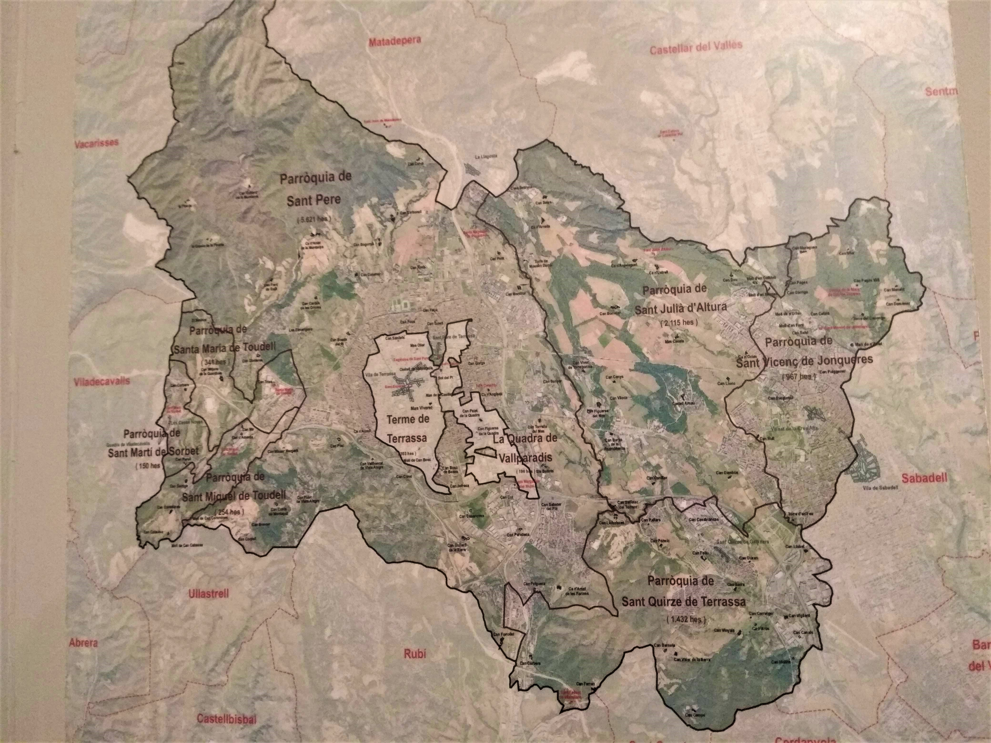 Map of the municipal district of Sant Pere de Terrassa (1800). Museum of Terrassa (Castell de Vallparadís)